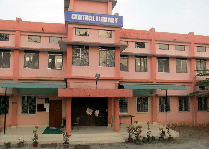 This is the central library of College of Engineering Chengannur, completed in the year 2011. Till then, there was only the ground floor.